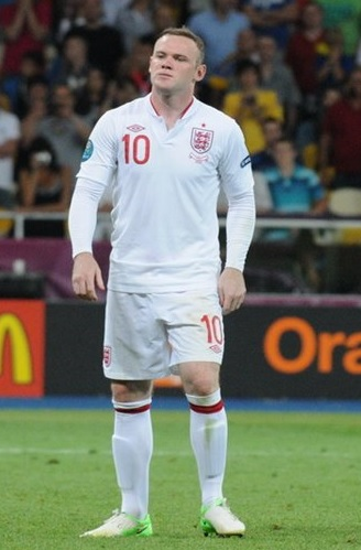 Wayne Rooney looking reem at Euro 2012 match against Italy